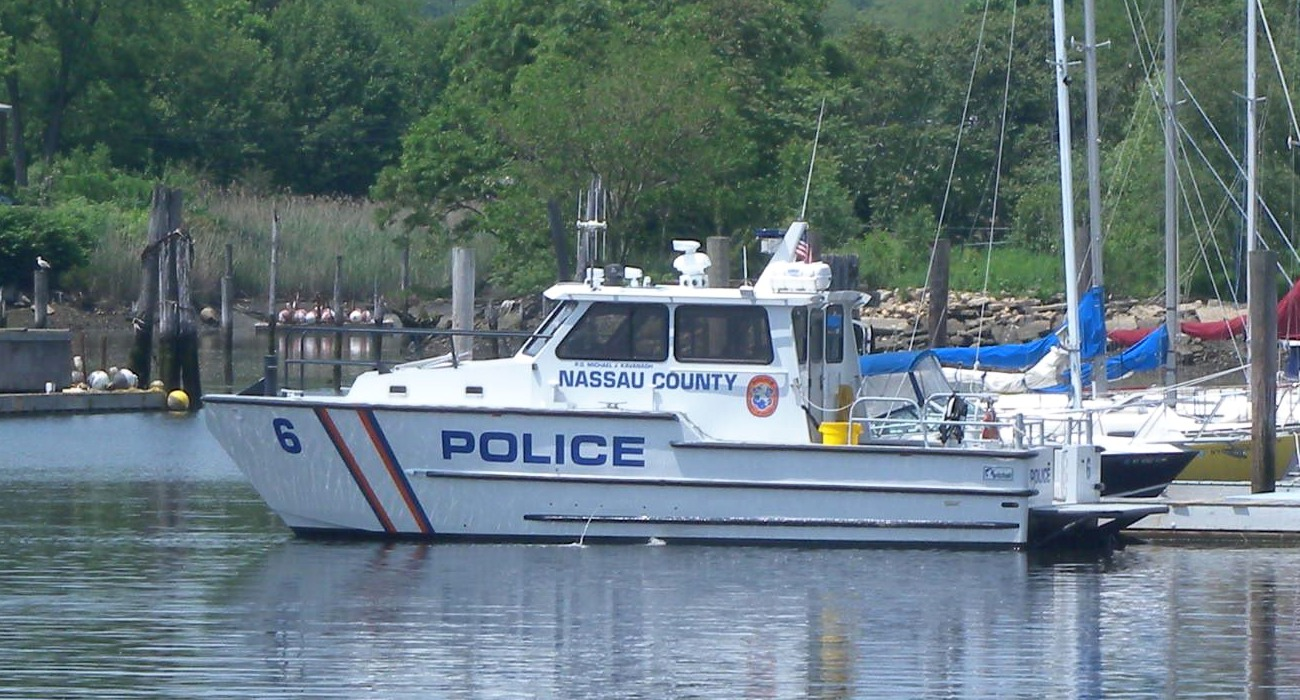 Looking north from Port Washington North Pier at police boat on a mostly sunny midday.